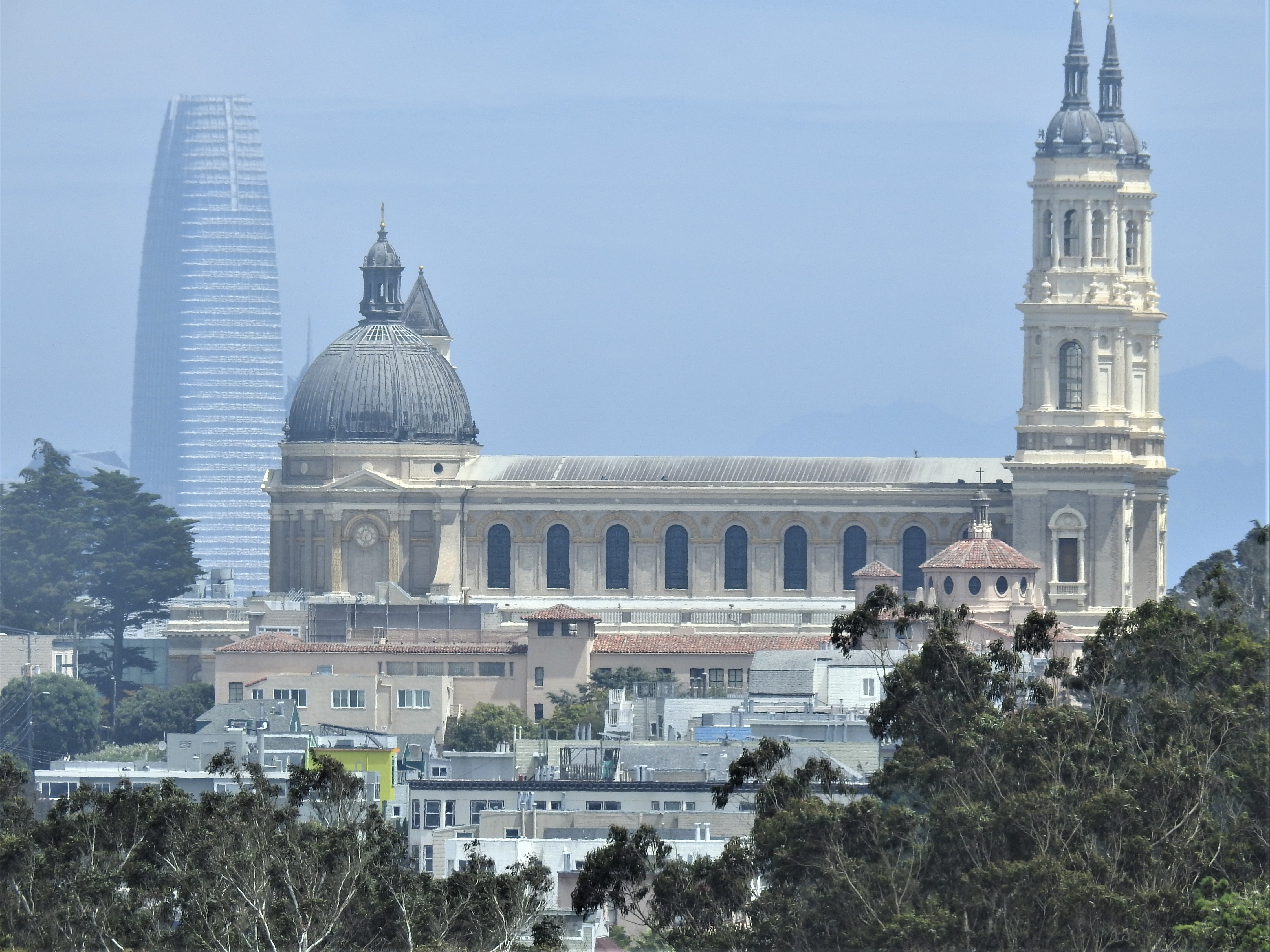 St. Ignatius Church watched from de Young Museum in 2019, with Salesforce Tower shown in its backdrop.